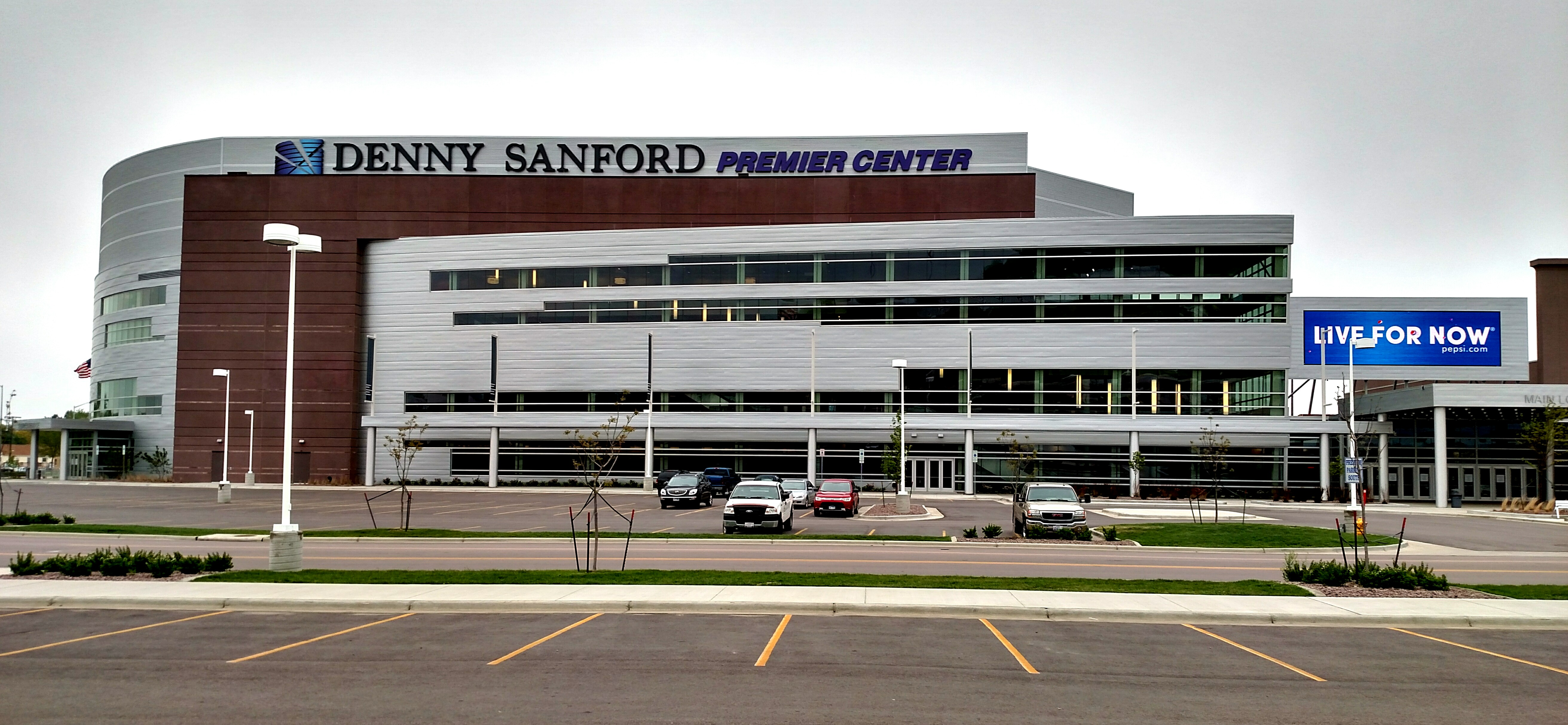 The Premier Center from one side